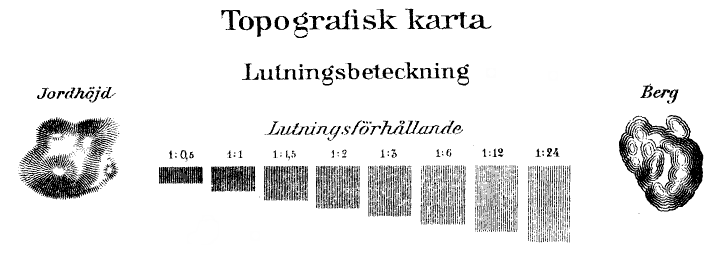 Johann Georg Lehmann's method